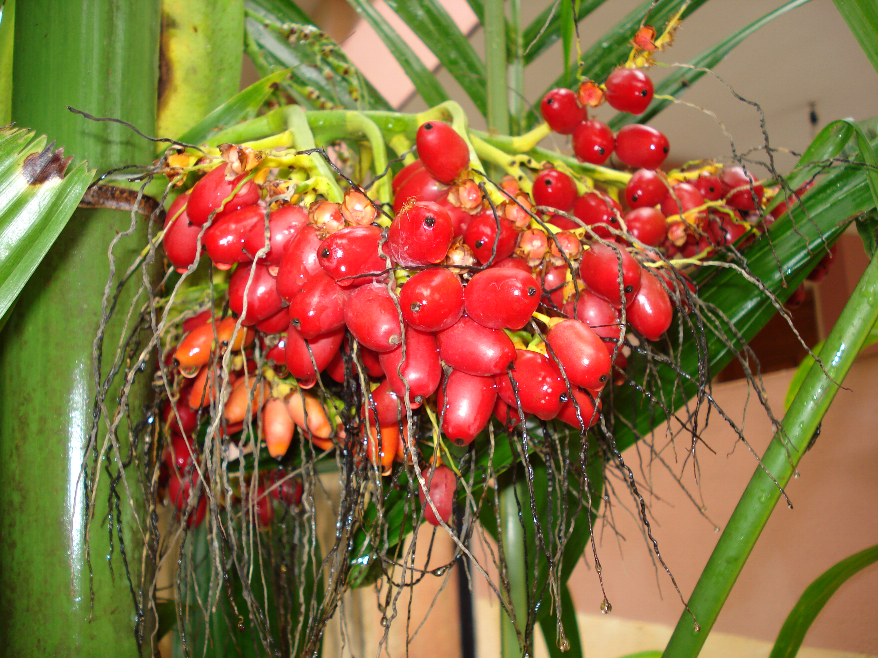 Arcanut